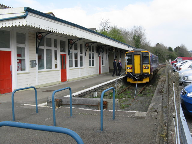 Liskeard station This shows the branch line station with railcar 153318 ready to depart for Looe